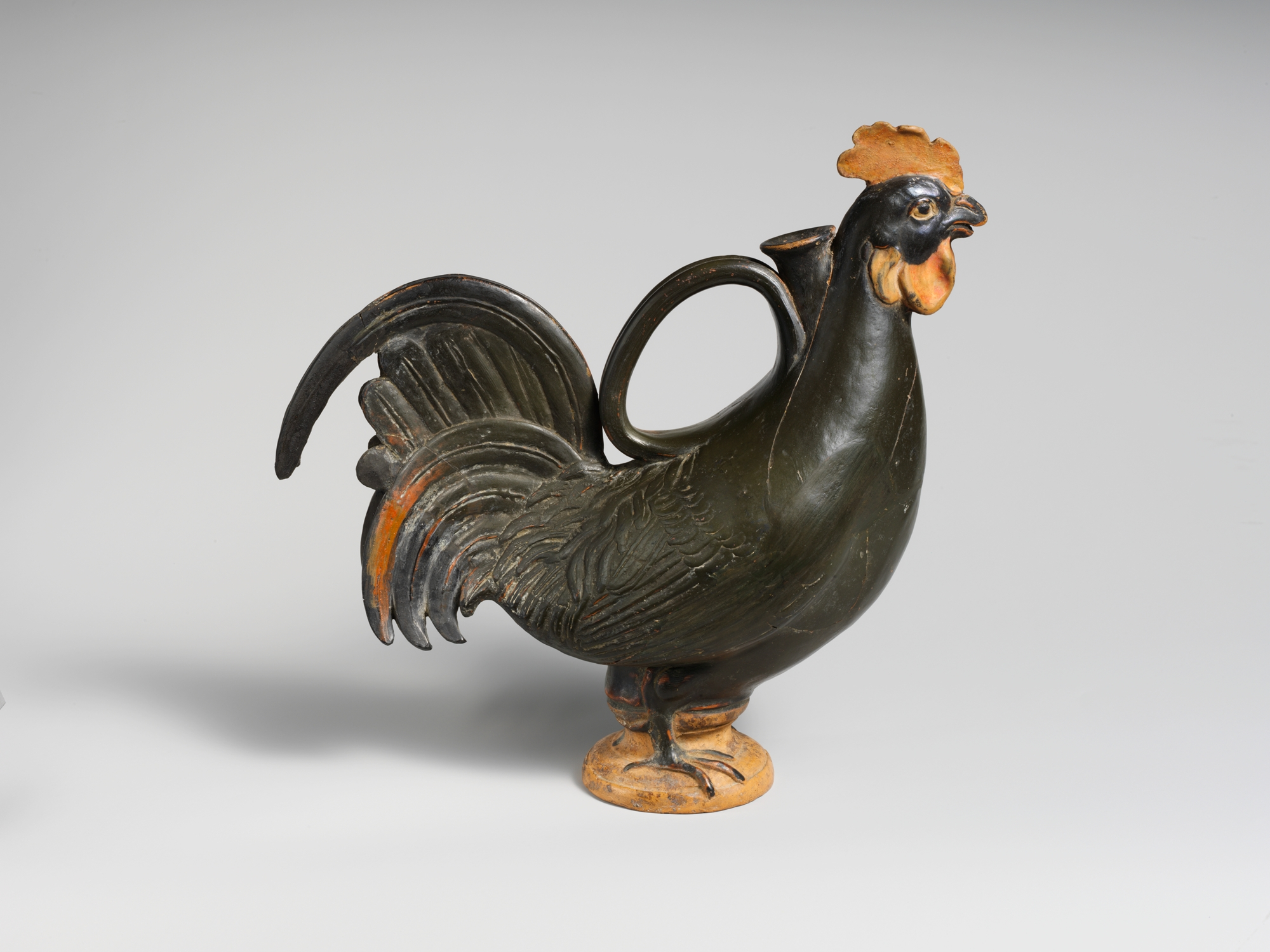 Etruscan; Askos in the form of a cock; Vases